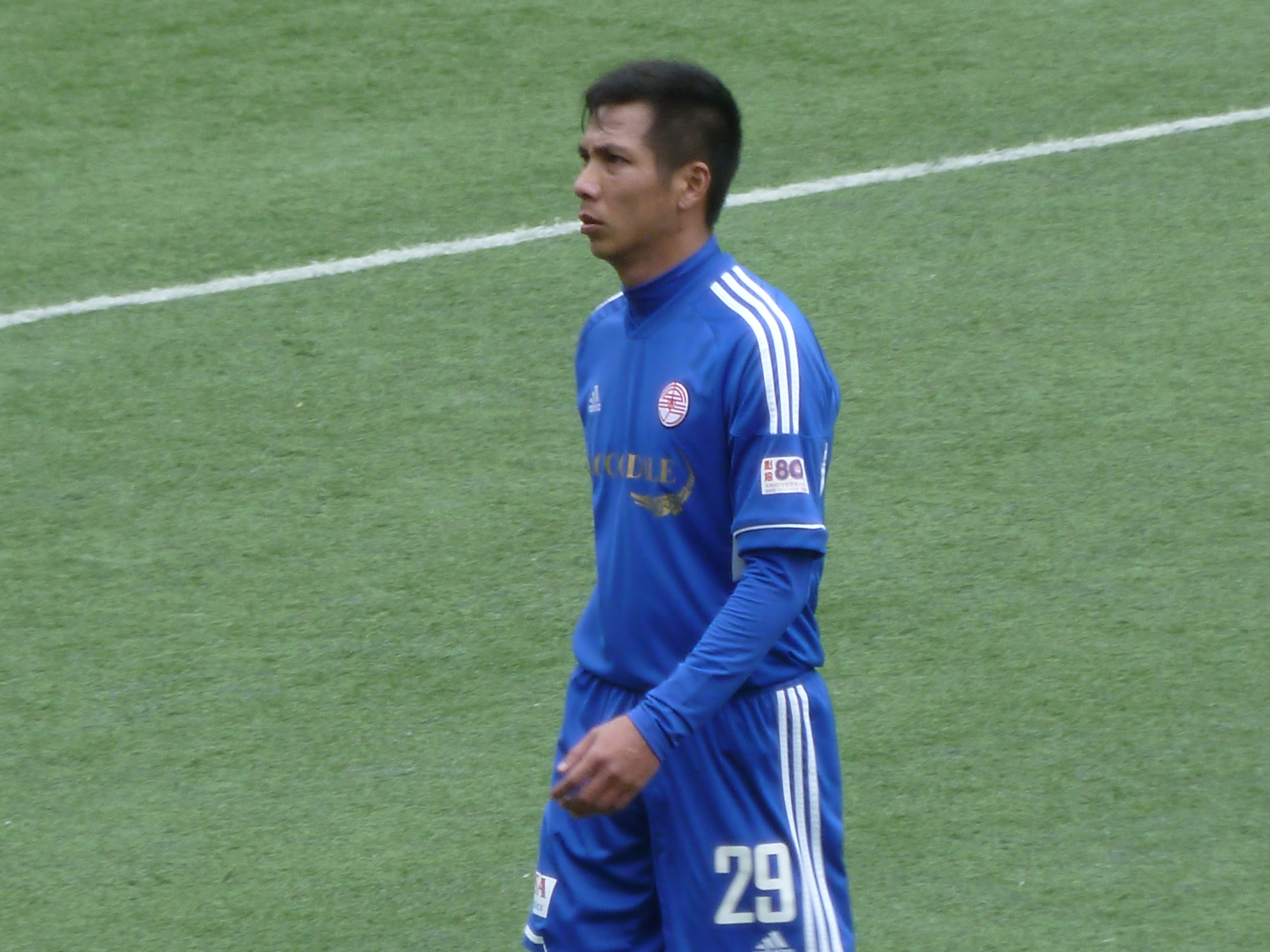 Yiu Hok Man (20 Jan 2013, Junior Shield, Eastern vs Kwai Tsing, Po Kong Village Road Park) 中文（香港）: 姚學文 (20 Jan 2013, 初級銀牌賽, 東方 vs 葵青, 蒲崗村道公園)